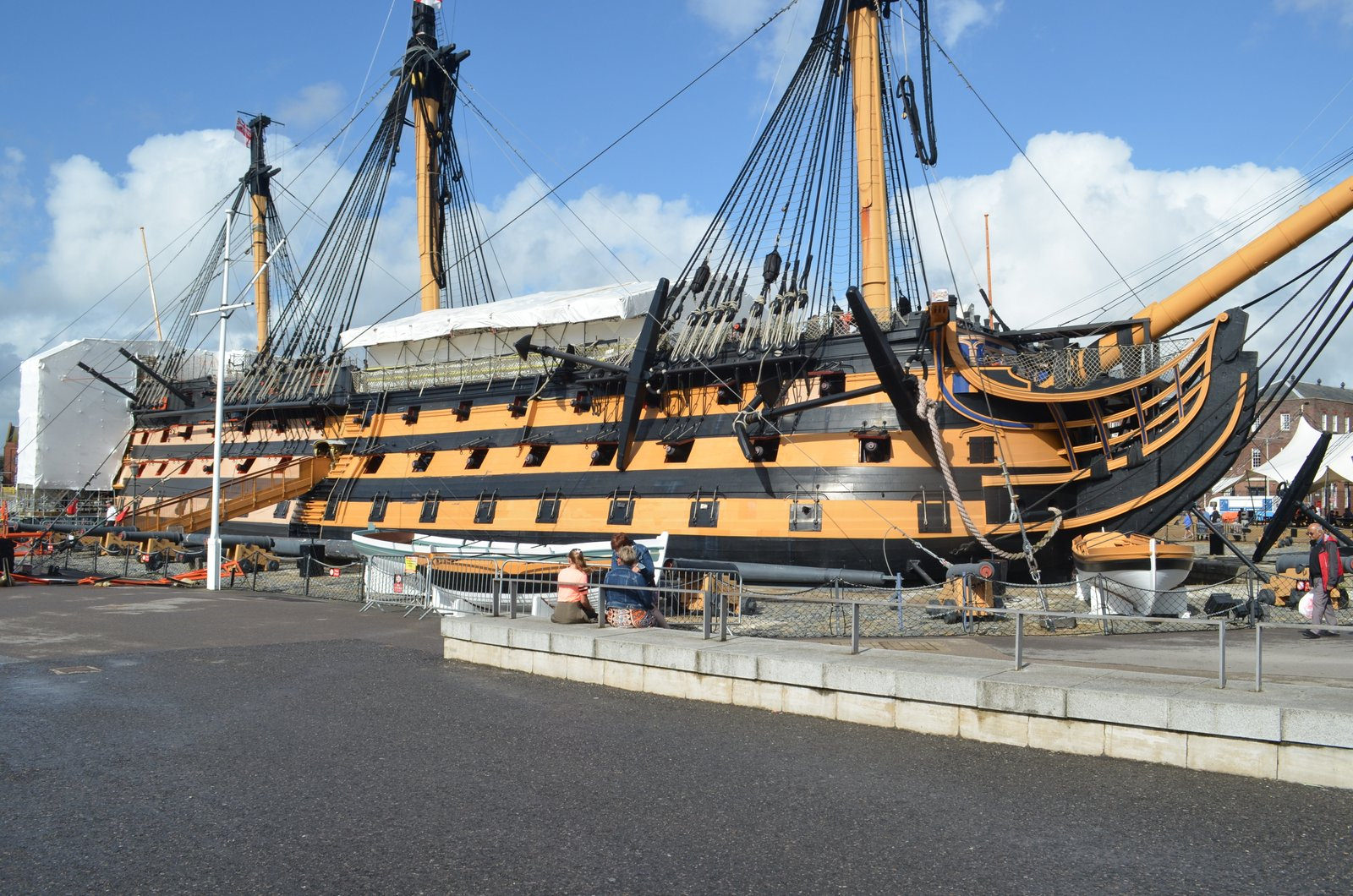 HMS Victory